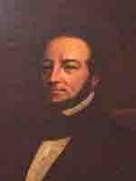 John H. Clifford (1809-1876)